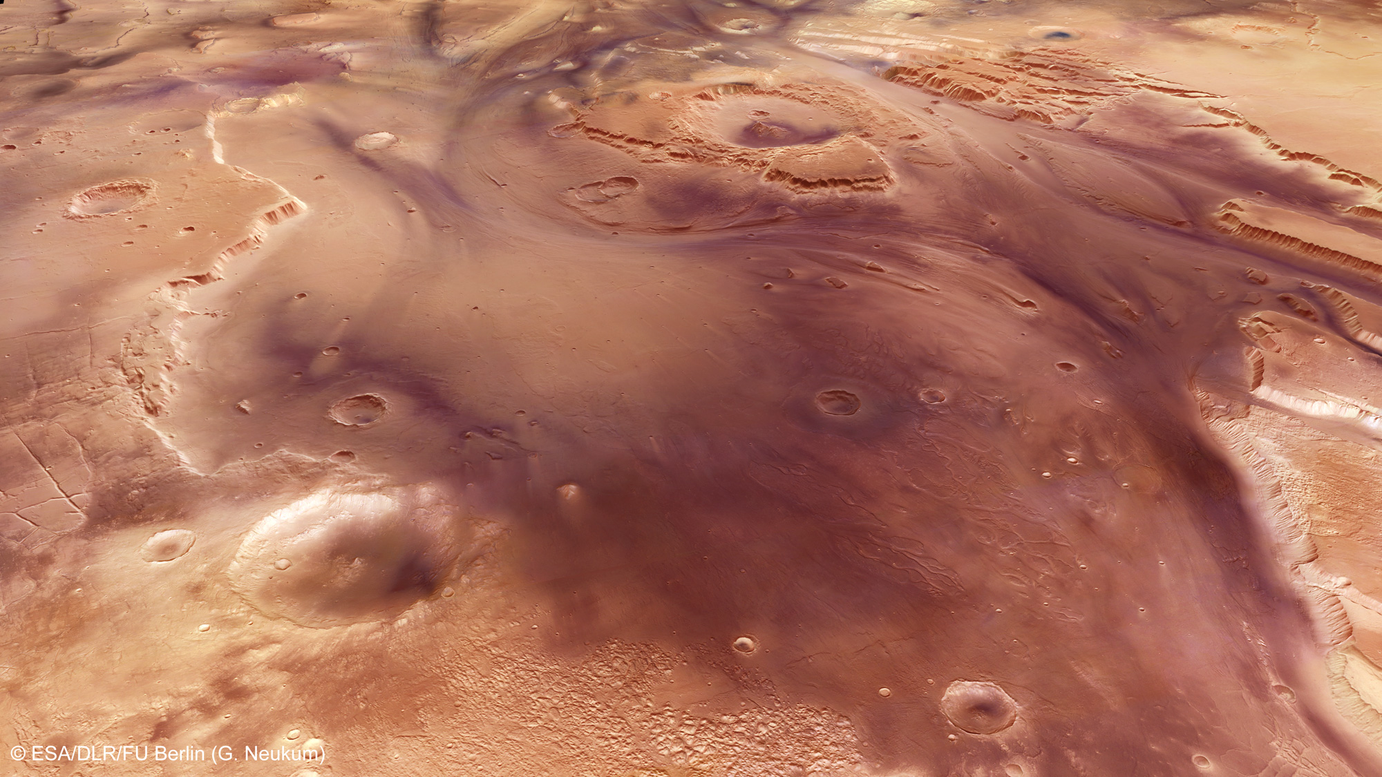 Looking in the direction of flowing water from the northern flanks of Kasai Valles towards 100 km-wide Sharonov crater in the top centre, and with Sacra Mensa to the lower right. Credit: ESA/DLR/FU Berlin (G. Neukum), CC BY-SA 3.0 IGO Copyright Notice: TThis work is licenced under the Creative Commons Attribution-ShareAlike 3.0 IGO (CC BY-SA 3.0 IGO) licence. The user is allowed to reproduce, distribute, adapt, translate and publicly perform this publication, without explicit permission, provided that the content is accompanied by an acknowledgement that the source is credited as 'ESA/DLR/FU Berlin’, a direct link to the licence text is provided and that it is clearly indicated if changes were made to the original content. Adaptation/translation/derivatives must be distributed under the same licence terms as this publication. To view a copy of this license, please visit